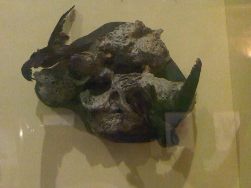 Taxidermied male and female Edible-nest Swiftlet (Aerodramus fuciphagus syn. Collocalia fuciphaga) with nest, at the Natural History Museum in London, England.